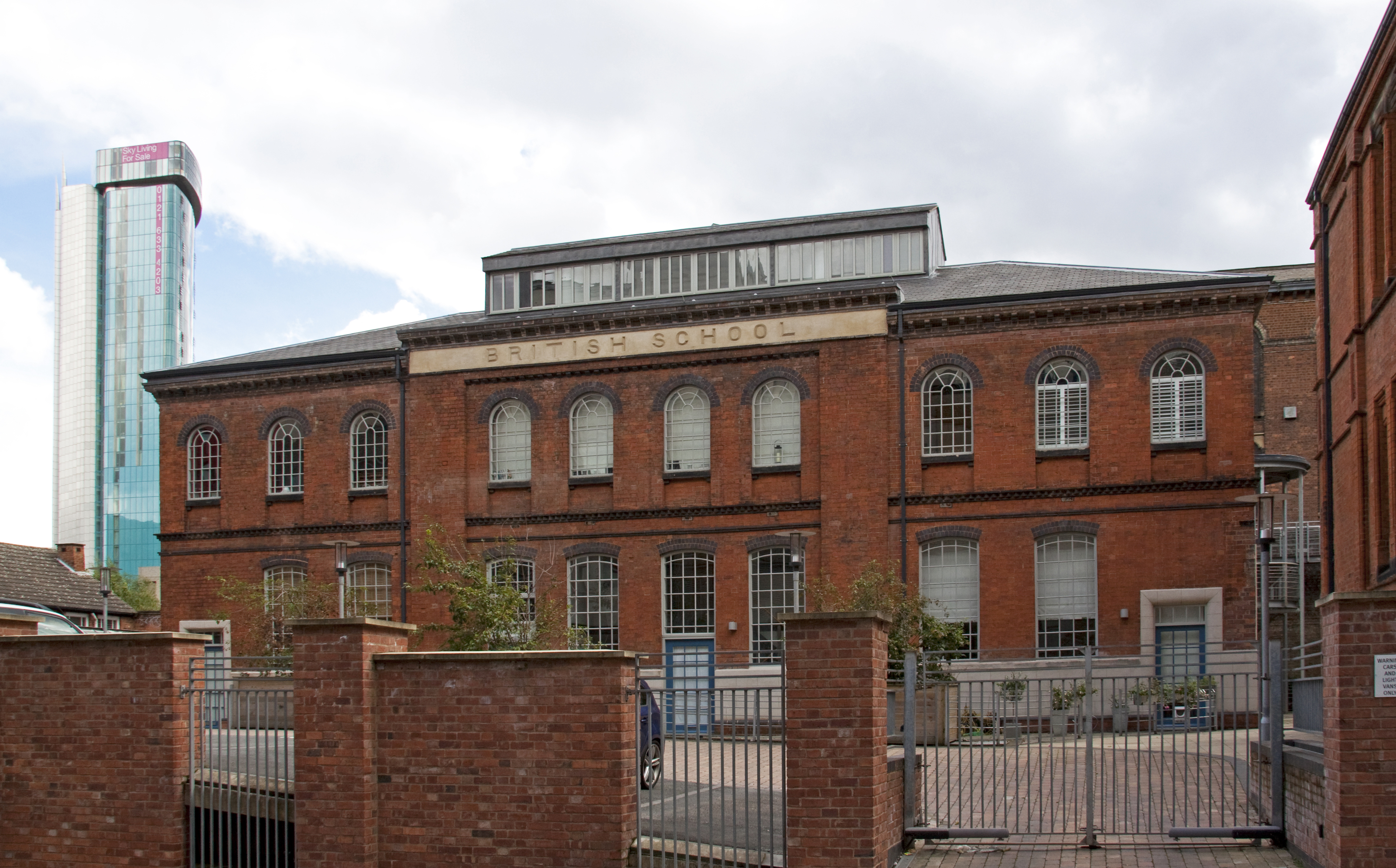 The British or Lancasterian School opened in September 1809 in Severn Street, some of whose buildings still survive today. Named after the creator, Joseph Lancaster, the school allowed large numbers of boys to be educated by just one teacher with the help of a number of assistants or monitors. What was most distinctive about the British School was that it was non-sectarian, and though attendance at church was urged, it was not enforced. Indeed, a handful of the boys were Jewish, and many were Quakers. In its first four years of existence the British School at Severn Street admitted 878 boys, and the school usually contained about 300 children, learning to read and write, and, for a few, to learn arithmetic. Most of the literacy was taught using slates; paper was only available to the most advanced. The youngest boys were in the “alphabet or sand class”, learning to make the shape of letters in the sand.